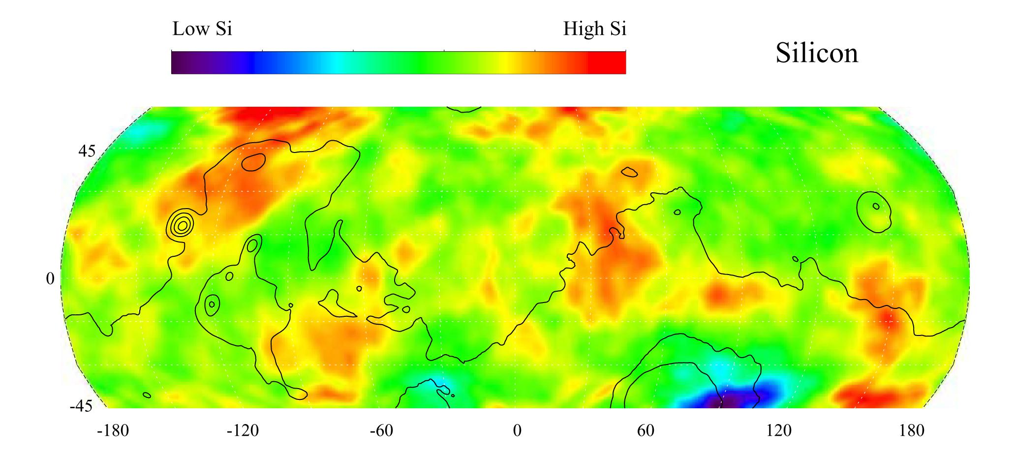 This gamma ray spectrometer map of the mid-latitude region of Mars is based on gamma-rays from the element silicon. Silicon is one of the most abundant elements on the surface of both Mars and Earth (second only to oxygen). The most extensive region of highest silicon content, shown in red, is located in the high latitudes north of Tharsis (centered near 45 degrees latitude, -120 degrees longitude). The area of lowest silicon content, shown in blue, lies just to the east of the Hellas Basin (-45 degrees latitude, 90 degrees longitude). Contours of constant surface elevation are also shown. The long continuous contour line running from east to west marks the approximate separation of the younger lowlands in the north from the older highlands in the south. NASA's Jet Propulsion Laboratory manages the 2001 Mars Odyssey mission for NASA's Office of Space Science, Washington, D.C. The gamma ray spectrometer was provided by the University of Arizona, Tucson. Lockheed Martin Astronautics, Denver, Colo., is the prime contractor for the project, and developed and built the orbiter. Mission operations are conducted jointly from Lockheed Martin and from JPL, a division of the California Institute of Technology in Pasadena.